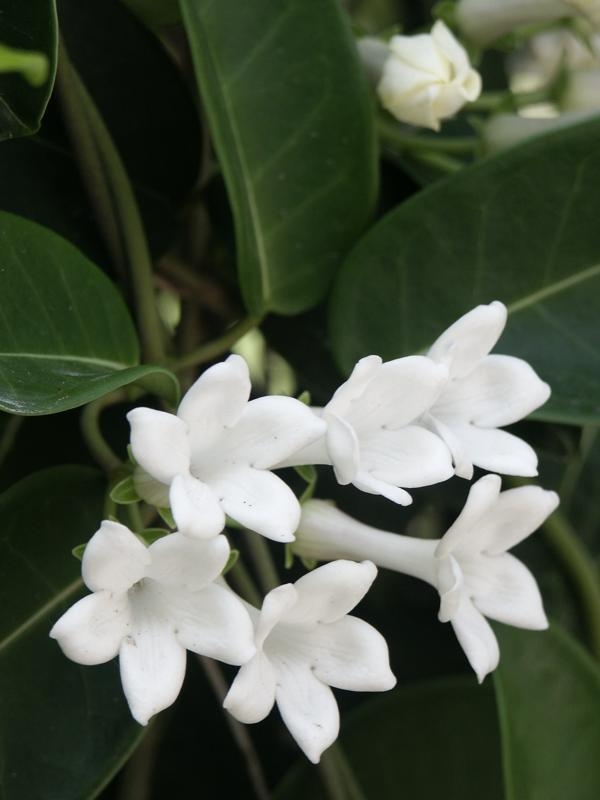 Stephanotis floribunda at Fairchild Tropical Botanic Garden, Miami, FL